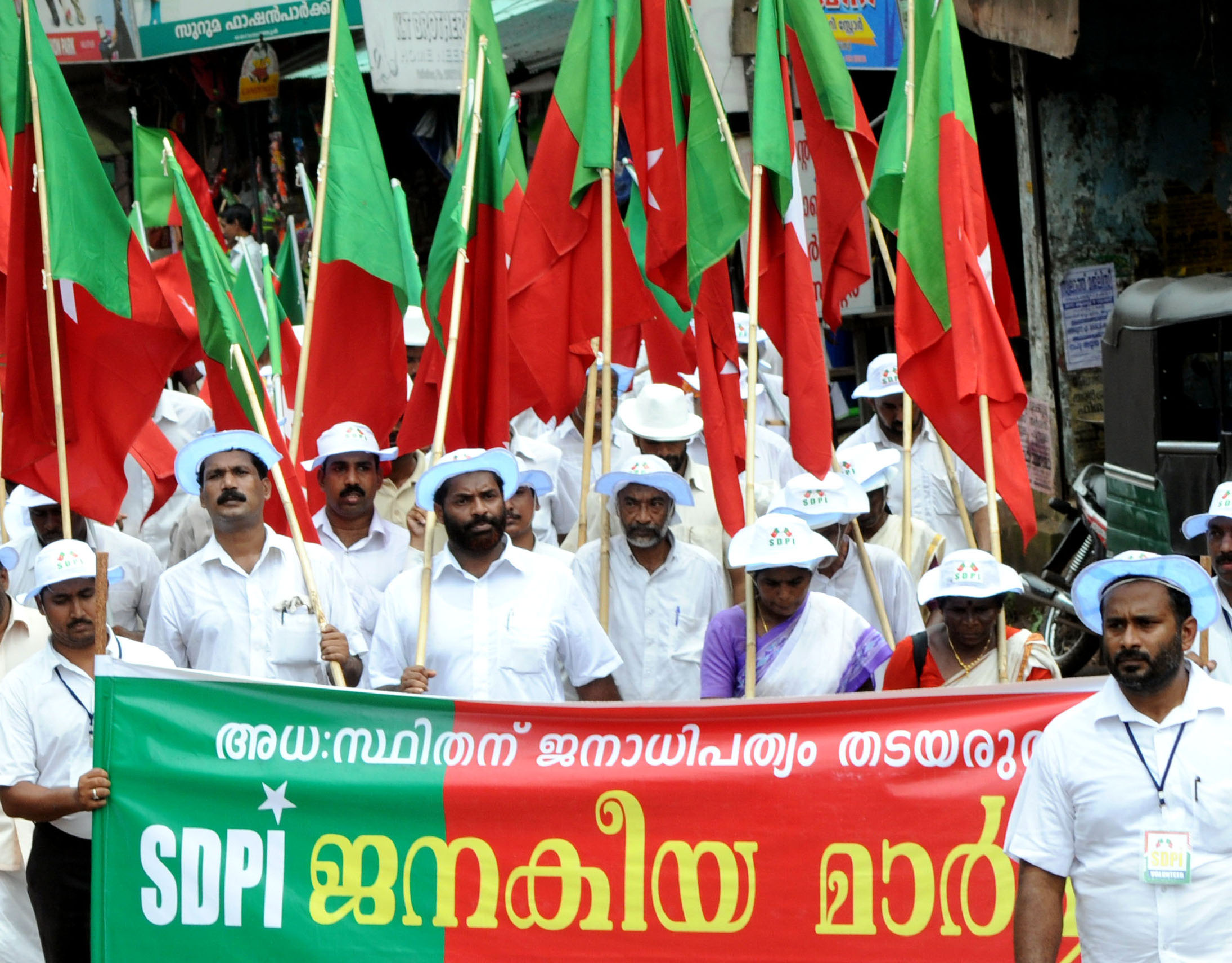 SDPI March